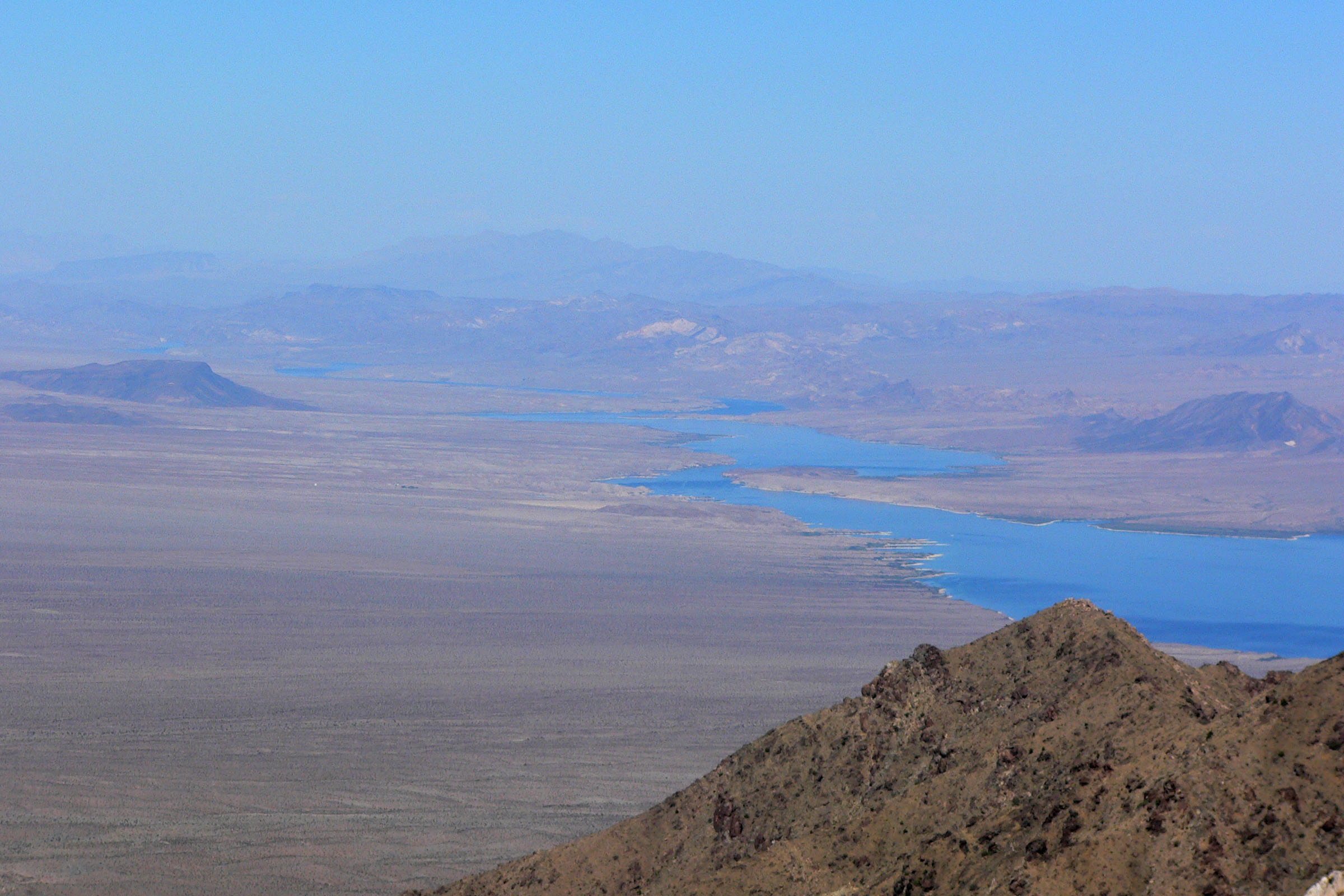 Lake Mohave seen from Spirit Mountain, Newberry Mountains, southern Nevada